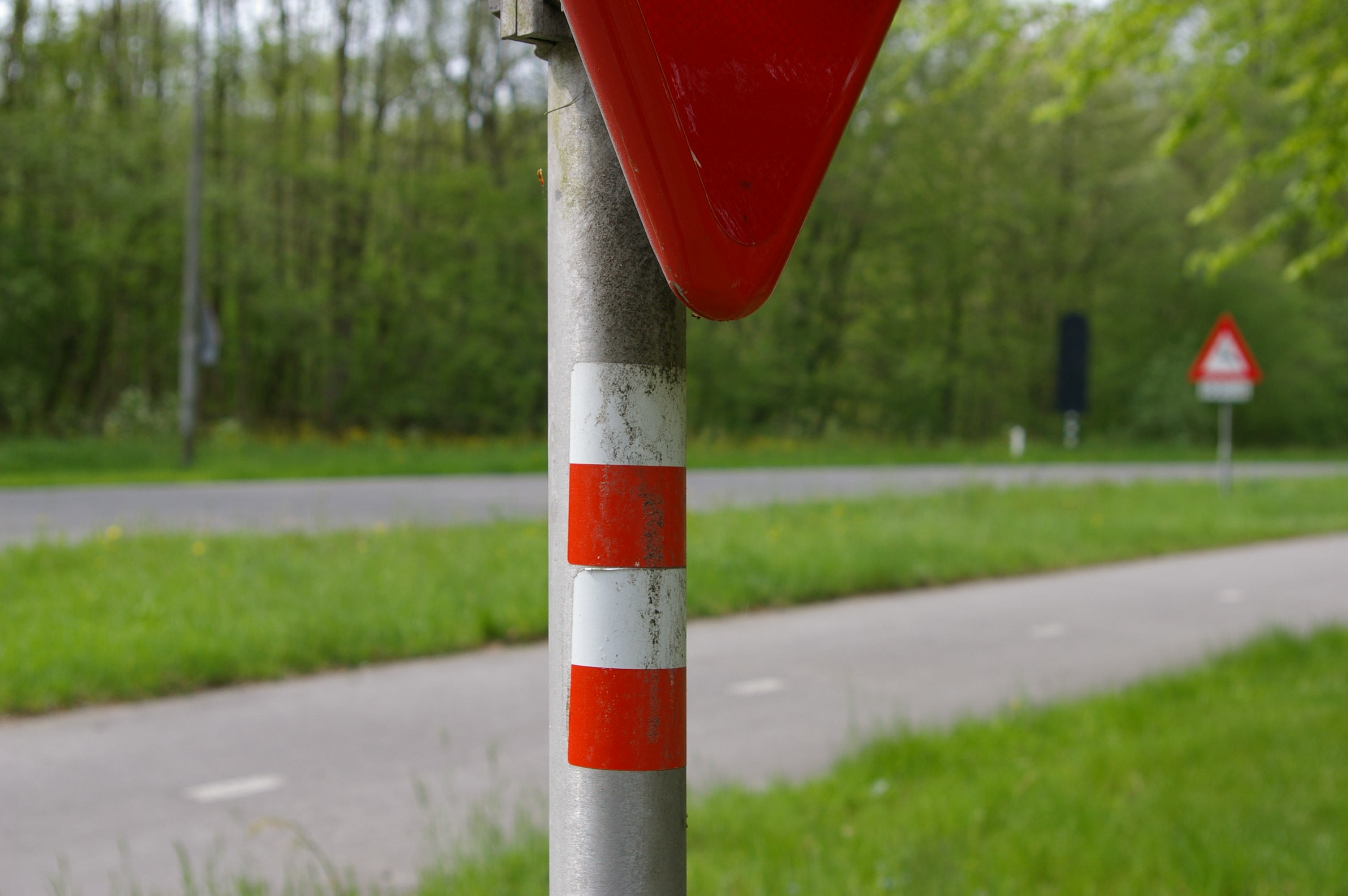 Hiking route sign indication change of direction. Based on the French system of hiking route markings, now being phased out. New system: arrow-shaped signs.